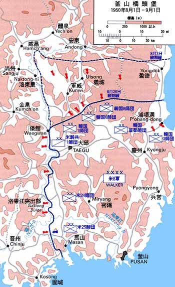 Map of the Pusan Perimeter, August 1950.